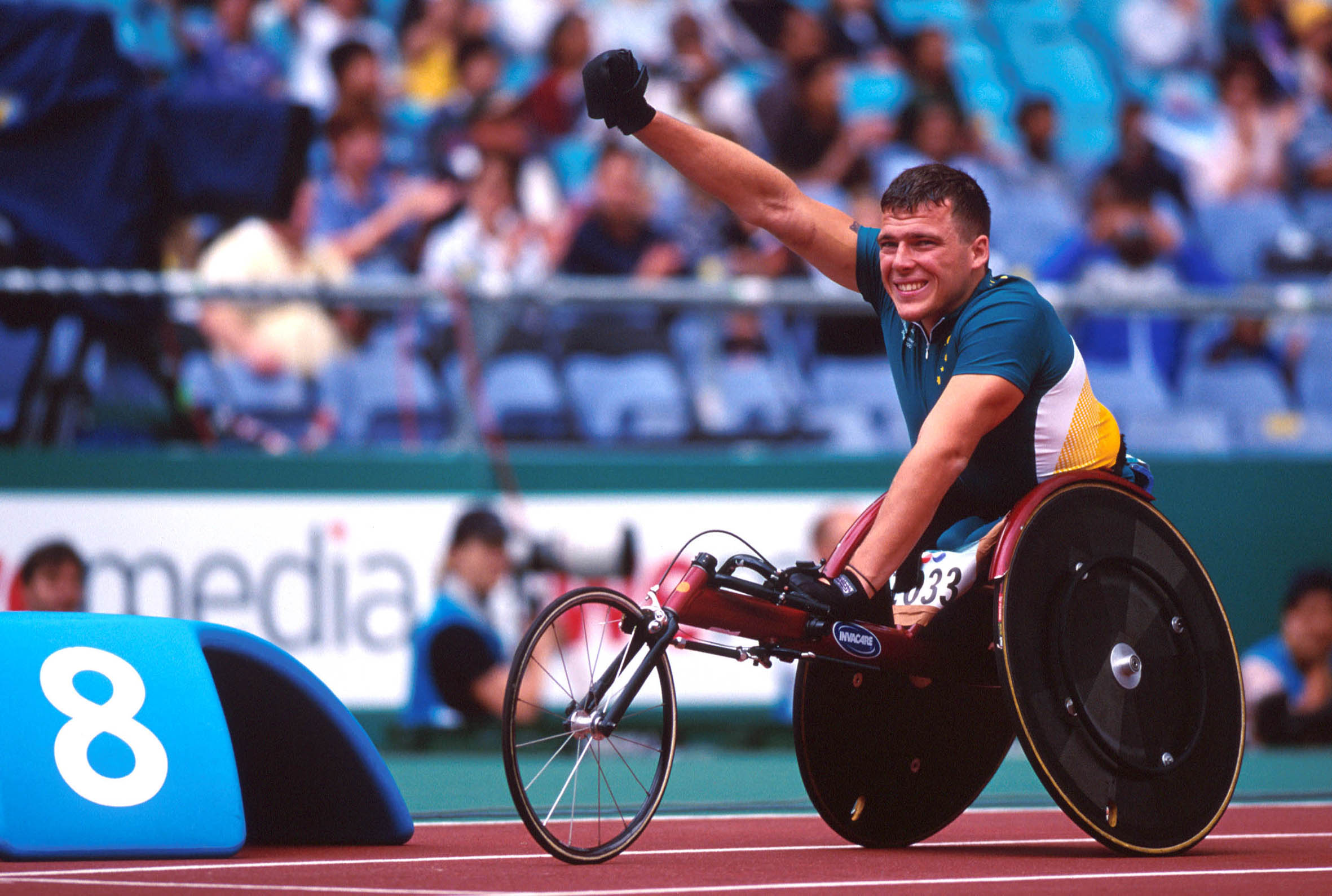 Australian wheelchair racer Kurt Fearnley waves to the crowd at the 2000 Sydney Paralympic Games